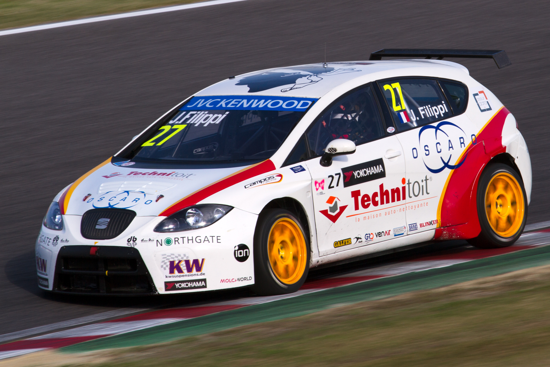 World Touring Car Championship 2014 Race of Japan: John Filippi (Campos Racing)